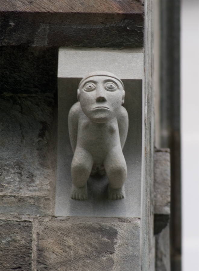 Sheela na Gig-figure from the octogone at Nidarosdomen